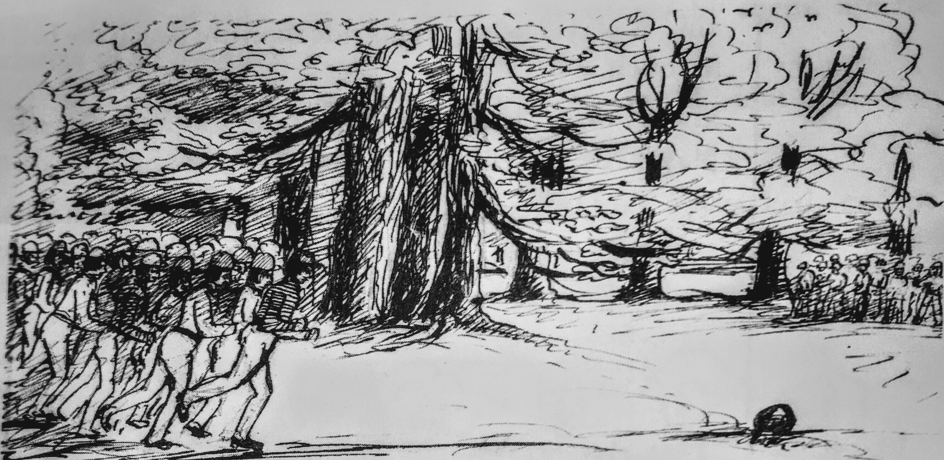 Illustration of "The Kick Off" at rugby school by Charles Harcourt Chambers, 1845.